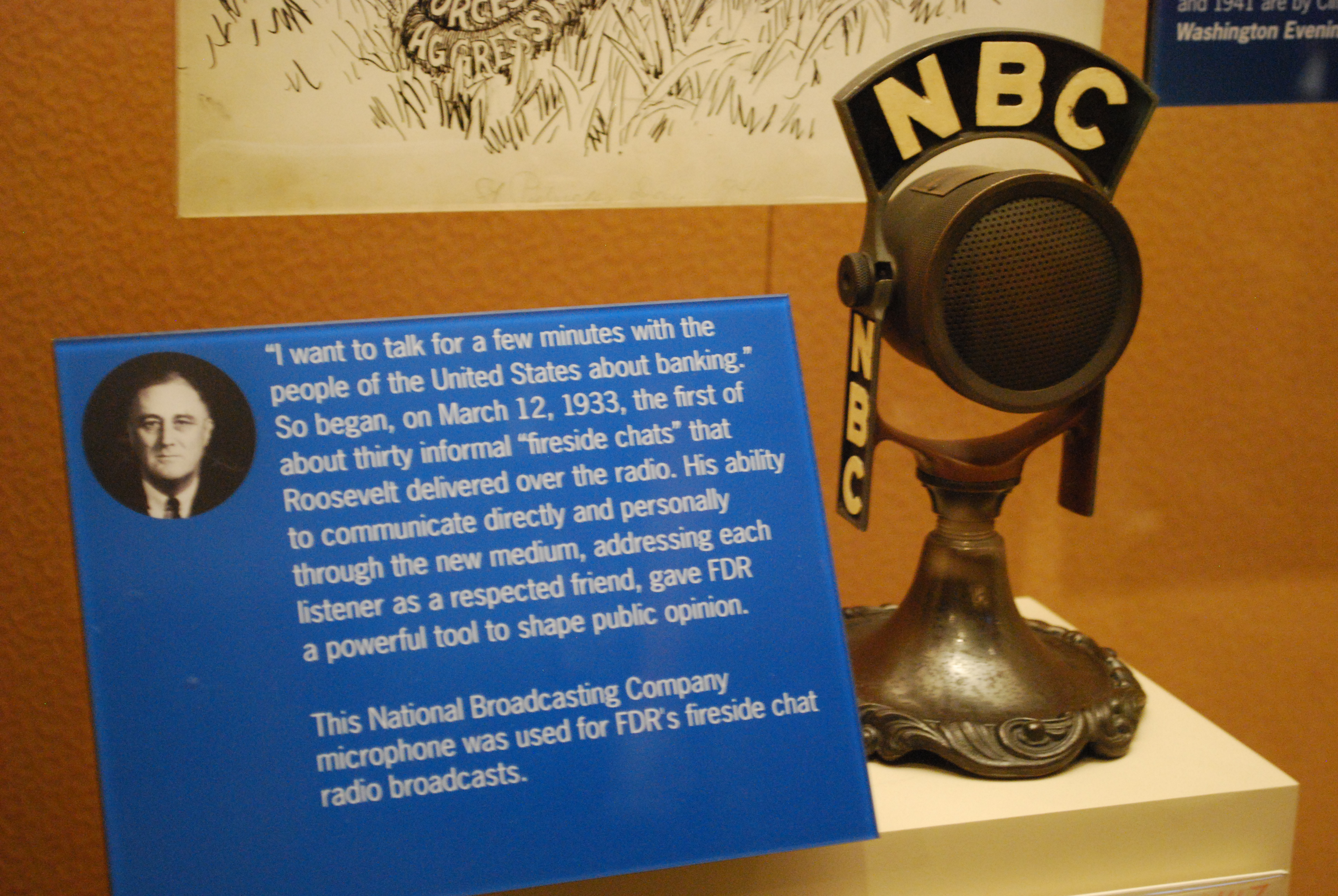 NBC microphone, National Museum of American History